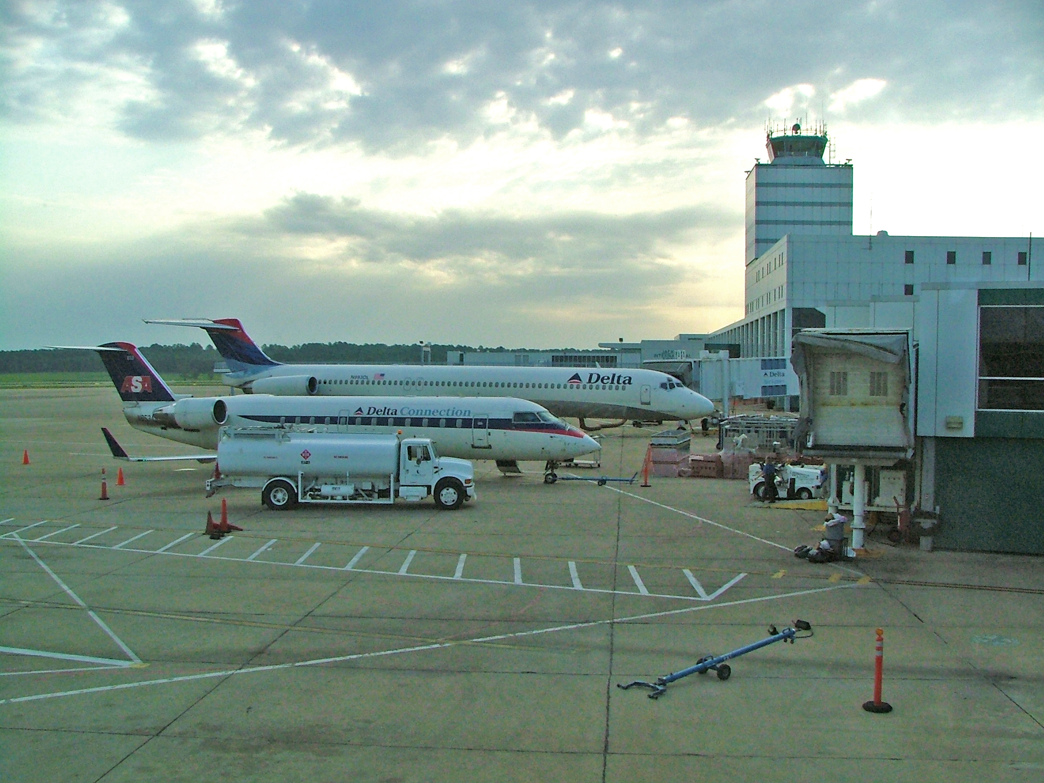 Jackson-Evers International Airport in July 2005. View from the West Concourse looking east across the tarmac. The aircraft in the foreground is a Canadair Regional Jet operated by Atlantic Southeast Airlines. Behind it is a Delta Air Lines McDonnell-Douglas MD-88. Photograph taken 12 July 2005 by Peter Clericuzio, using a Fuji FinePix S5000 digital camera.